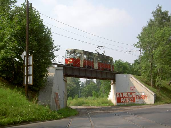 A 110-year-old tramway viaduct in Gliwice passing over out-of-use railway tracks.